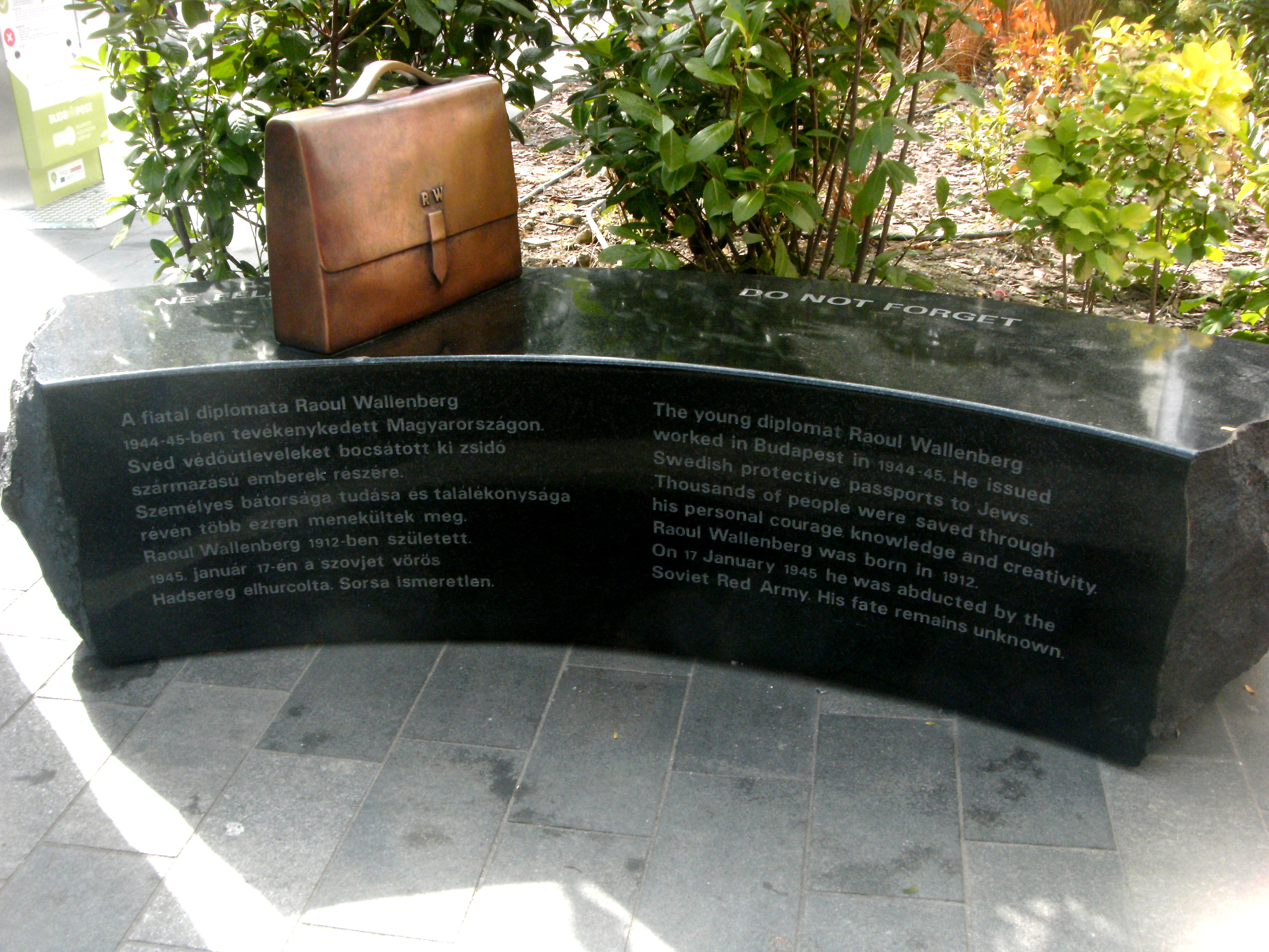 Raoul Wallenberg memorial in Erzsébet tér (Elizabeth square), Budapest